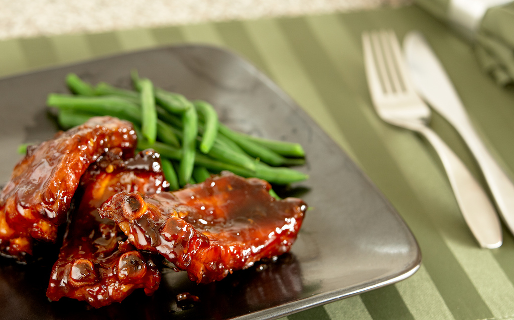 Ribs with Asian Barbecue Sauce 3of3